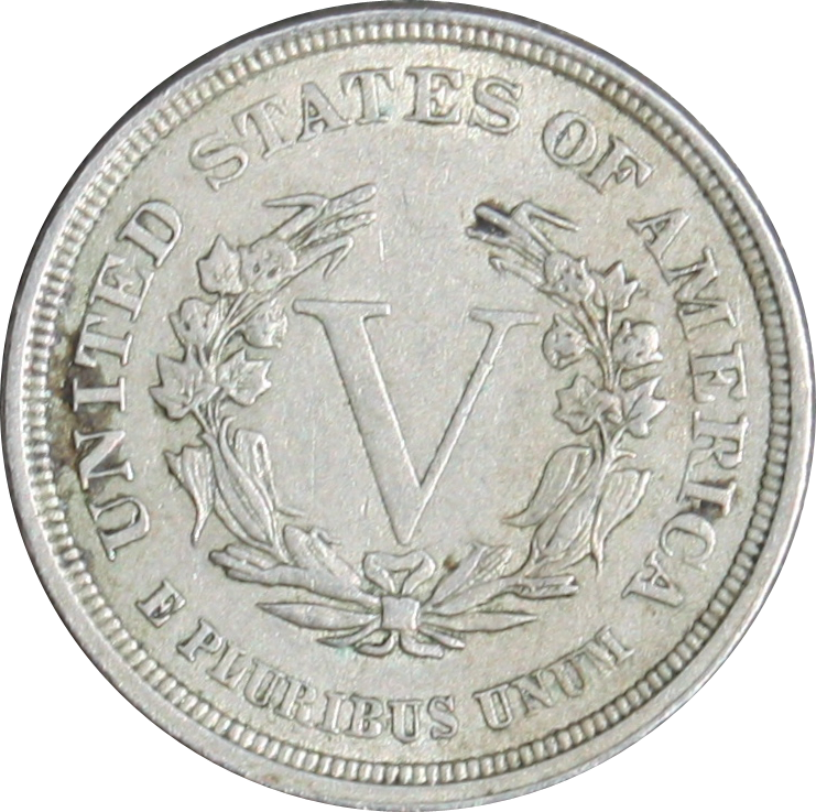 Reverse of no cents Liberty Head nickel